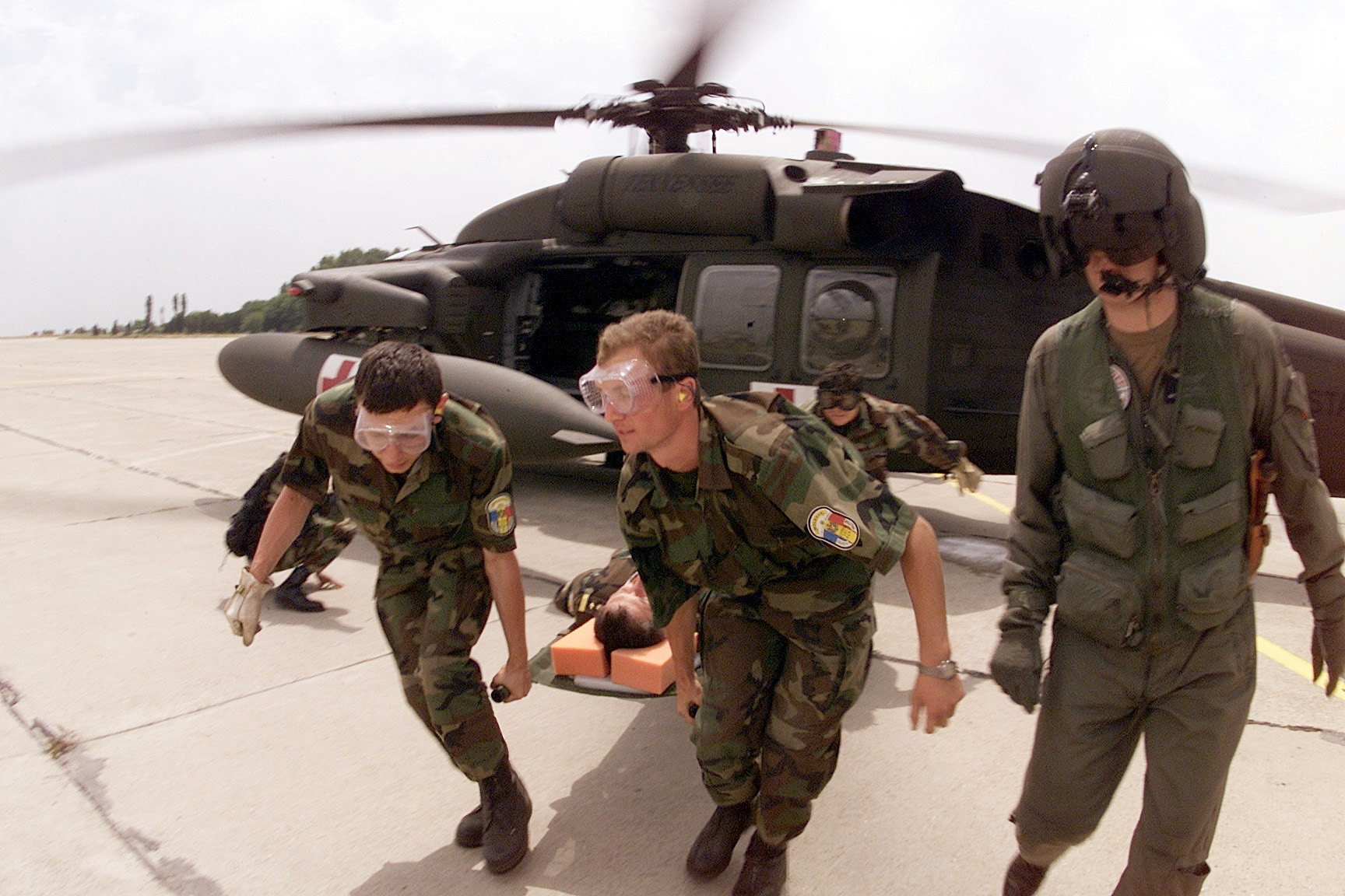 Multi-national litter bearers unload a simulated patient off a UH-60Q Black Hawk medevac helicopter at Constanta, Romania, on July 13, 2000, during Exercise Rescue Eagle 2000. Rescue Eagle 2000 is a Romanian-hosted joint and combined exercise designed to improve the abilities of multi-national forces to conduct peacekeeping, search and rescue, humanitarian assistance and disaster relief missions. Forces from Azerbaijan, Bulgaria, Georgia, France, Germany, Greece, Hungary, Italy Moldovia, Romania, Slovakia, Turkey and the United States are participating in the exercise. The Black Hawk is assigned to the Combat Enhanced Capability Aviation Team (Medical), Tennessee Army National Guard, Knoxville, Tennessee.